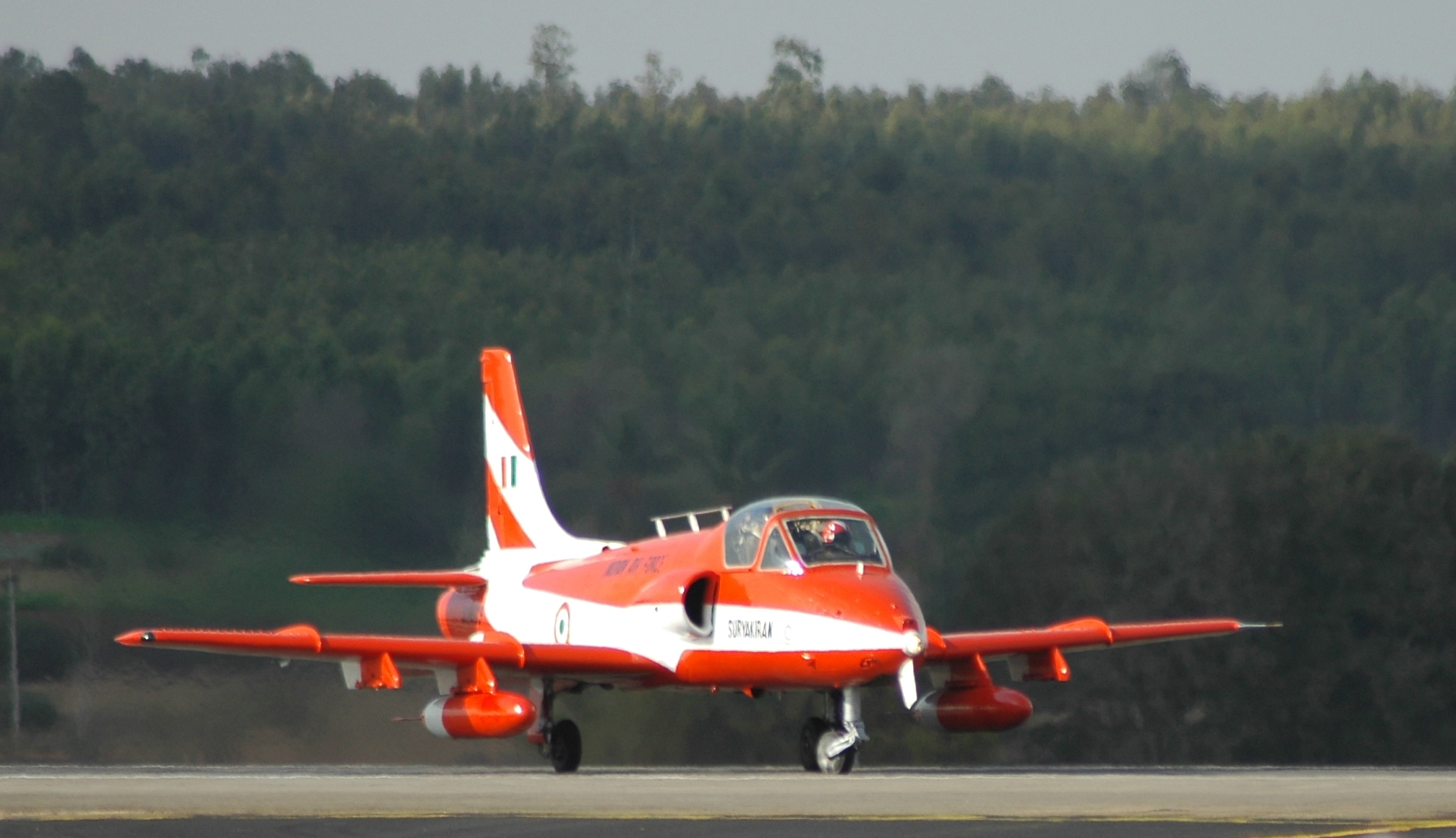 Image of HAL Kiran of the Surya Kiran Aerobatic team on the tarmac at Aero India-2007, Bangalore, on February 10. Photo by Premshree Pillai, taken from his Photostream on Flickr